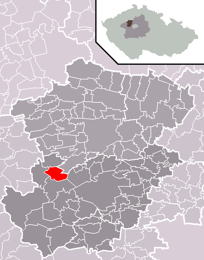 Location of Kačice municipality within Kladno District and administrative area of Kladno as a Municipality with Extended Competence.